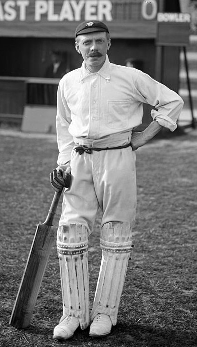 England (1888 - 1902) and Surrey cricketer Robert Abel (1857 - 1936). Wisden Cricketer of the Year 1890.